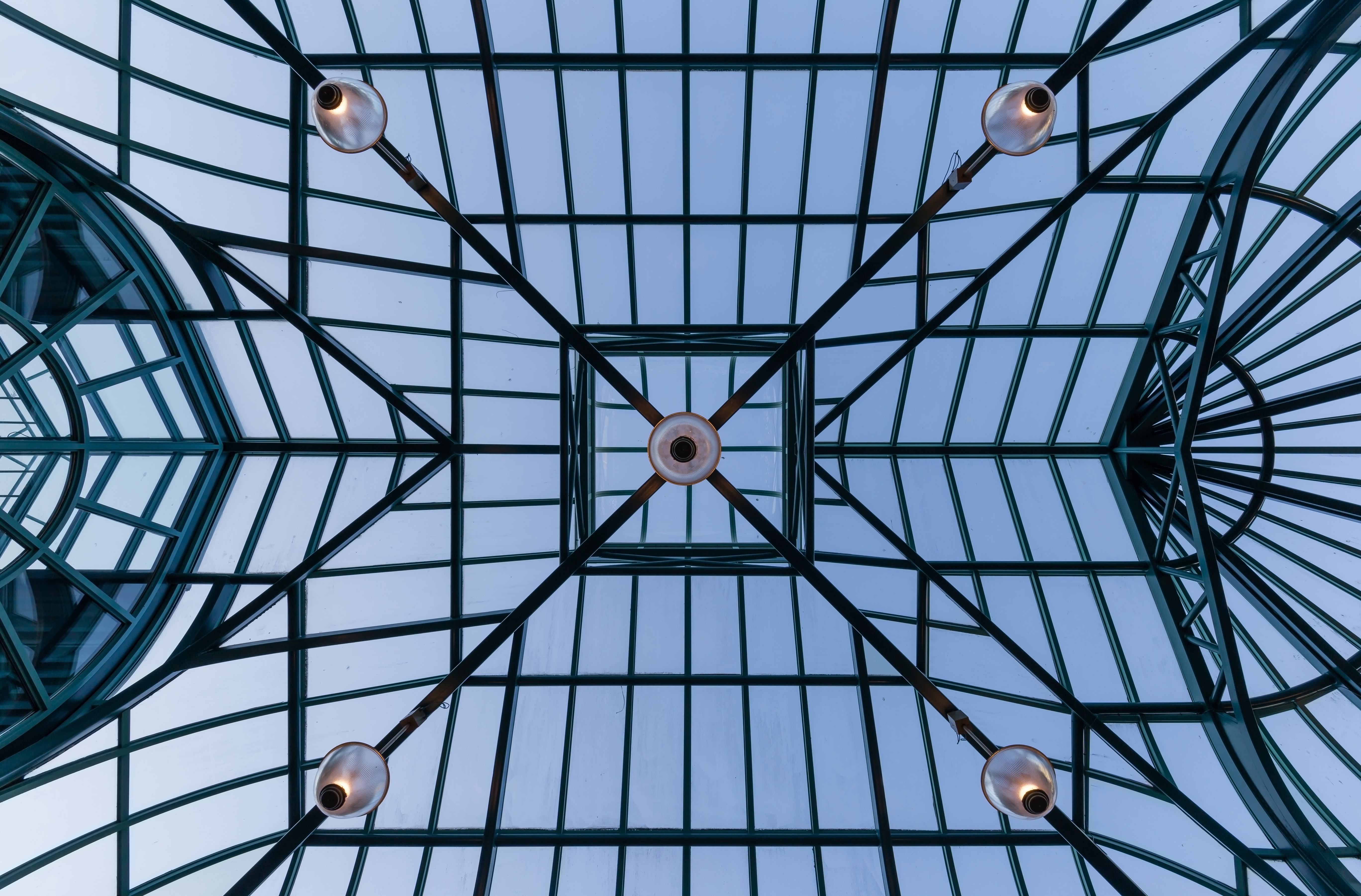 Roof above the entrance to Victoria Conference Centre from Douglas Street. Victoria, British Columbia, Canada